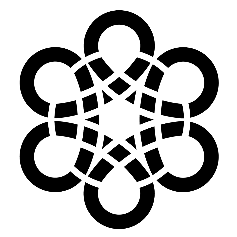 Logo of Perlan